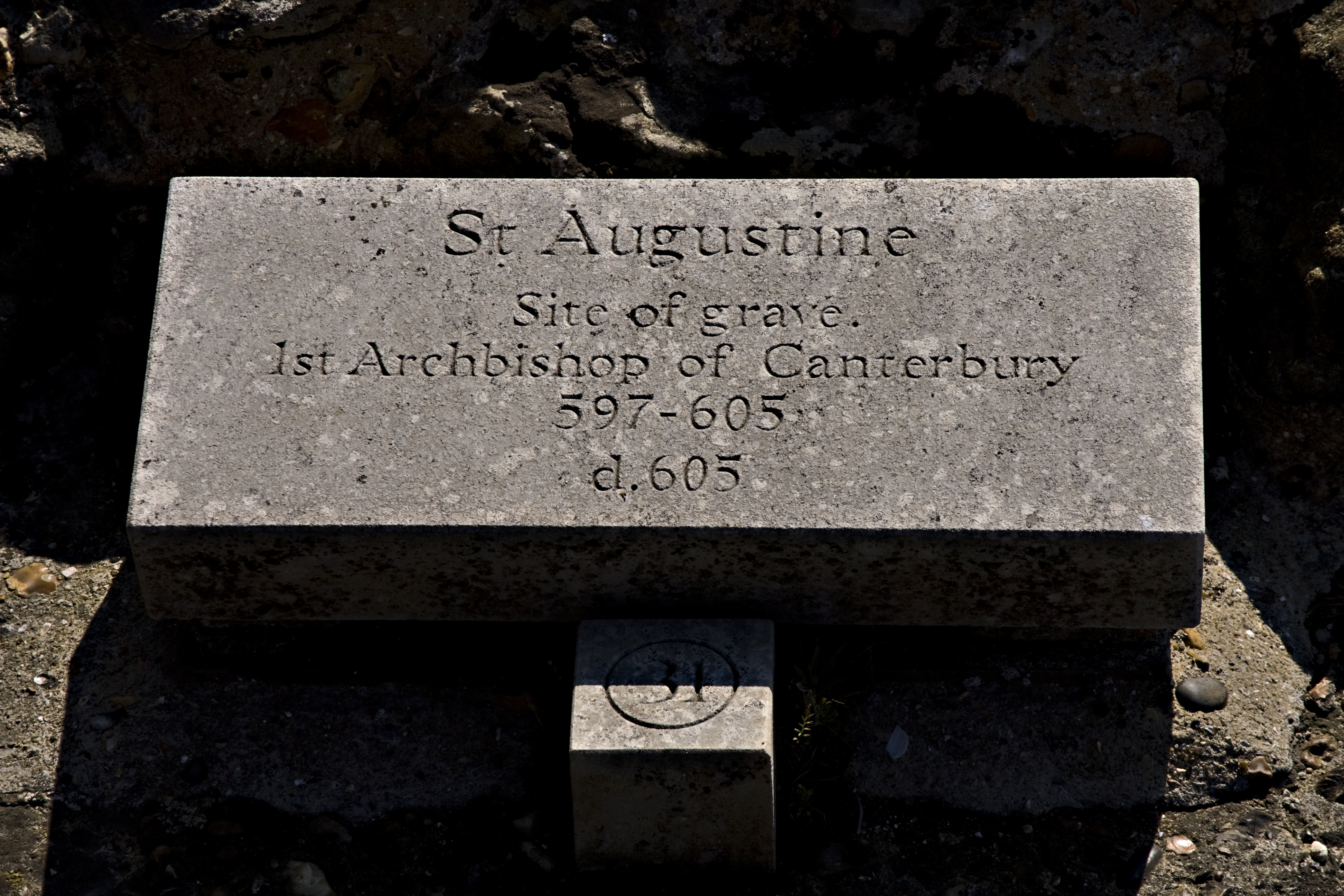 St Augustine's Abbey, Canterbury - gravestone of St Augustine, first Archbishop of Canterbury